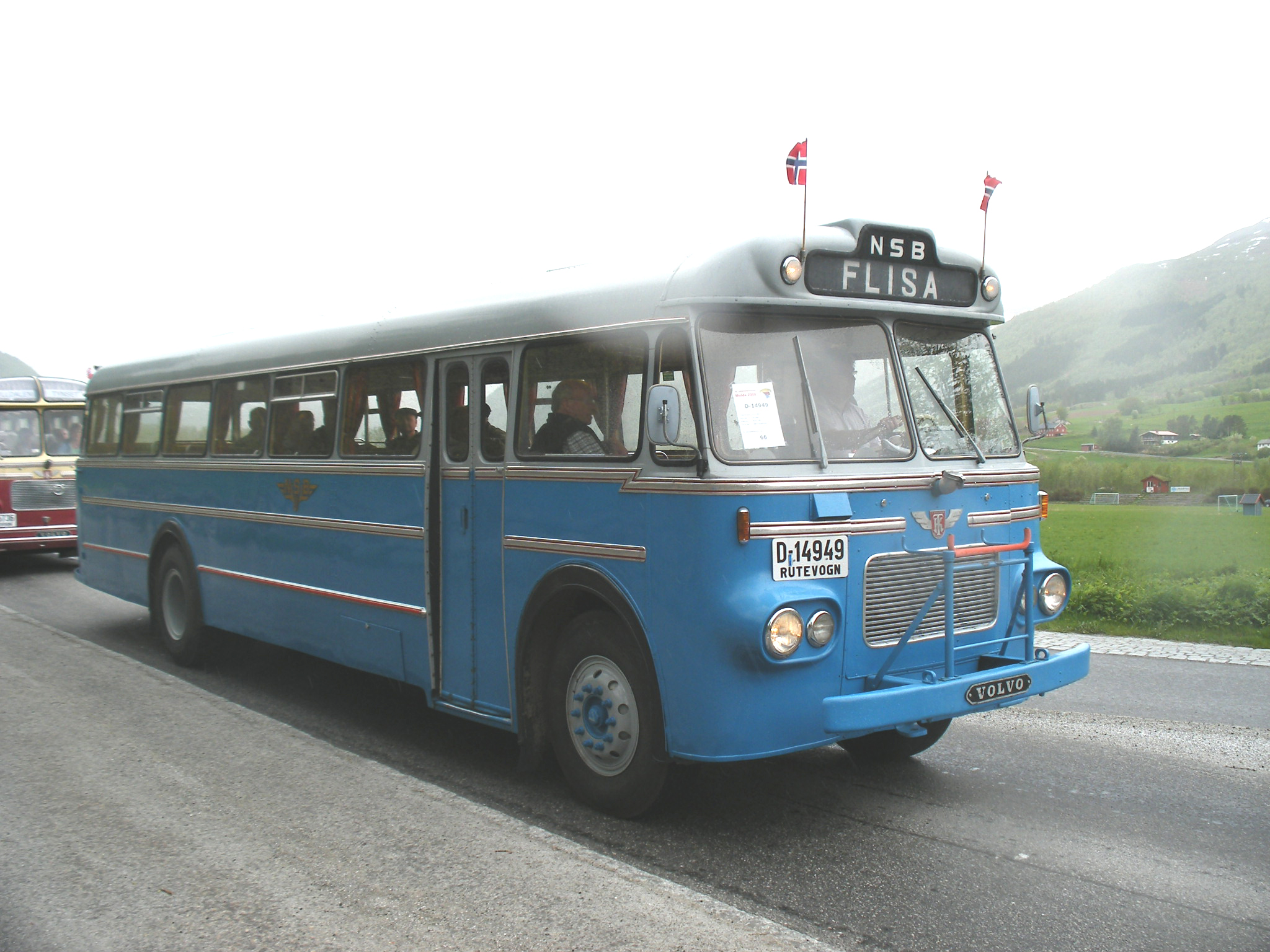 Old bus from Norway. Volvo B615 chassis bus, T. Knudsen body. NSB - Flisa.